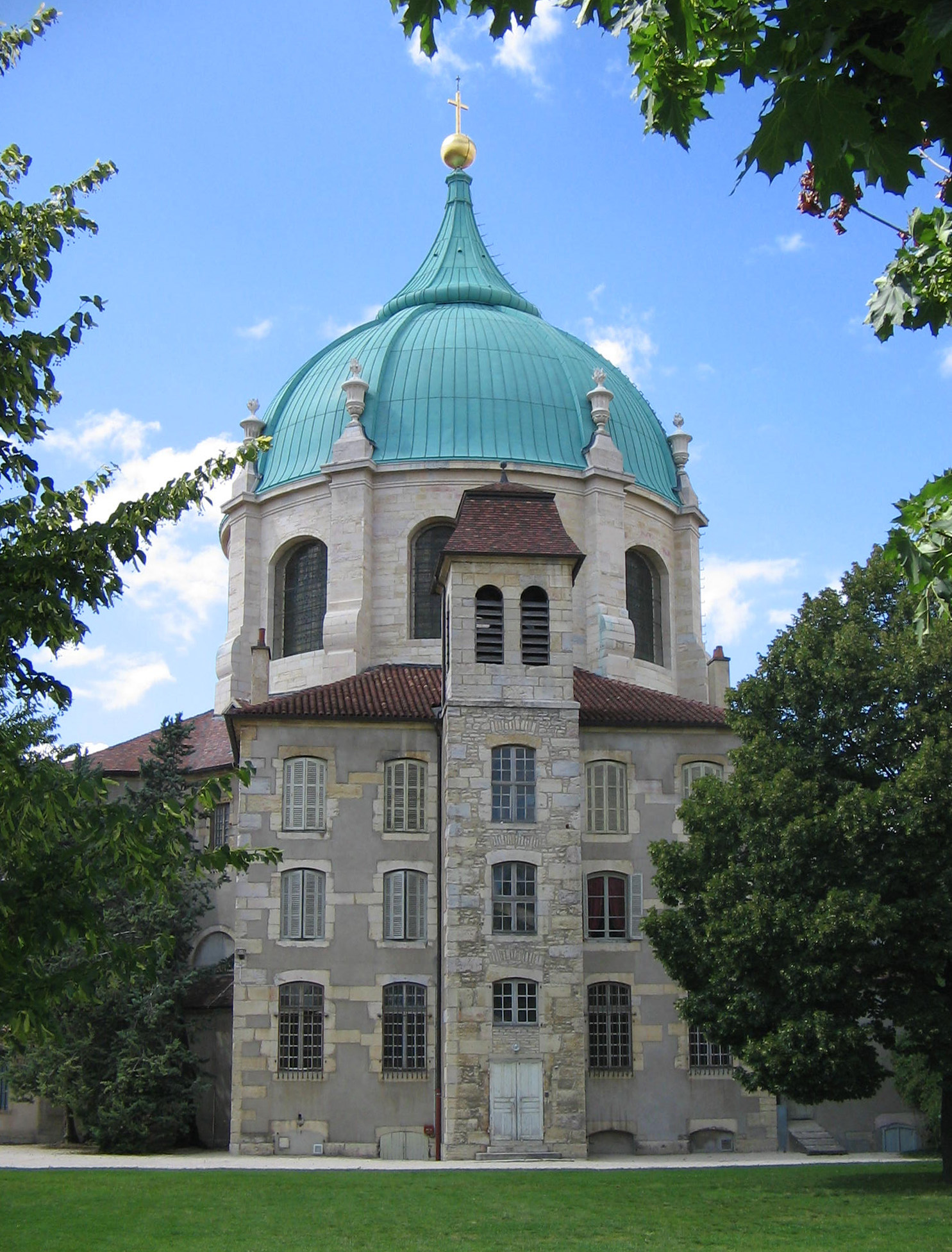 Dijon : Ste-Anne church, now a museum dedicated to liturgic apparatus, garden.